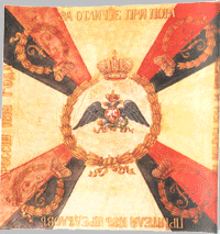 Standard of the Černigov 29th Infantry Regiment